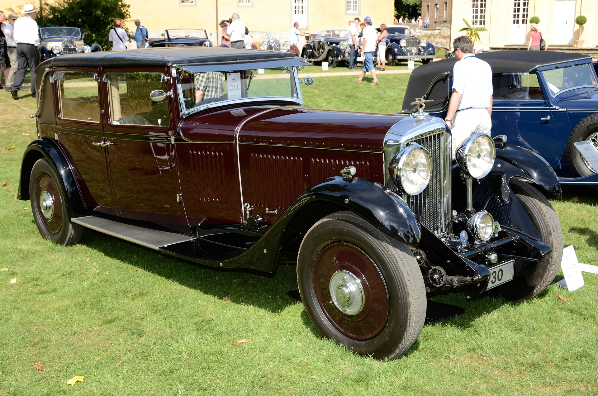 2013 Classic Days Schloss Dyck - Jüchen Bentley 8-litre 4-light sports saloon Weymann fabric by H J Mulliner 1930 This is the first production 8-litre Chassis YF5001 13' (156") wheelbase Engine YF5001 Reg GK 672 delivered October 1930 to star of stage and screen Jack Buchanan Source of data—Vintage Bentleys